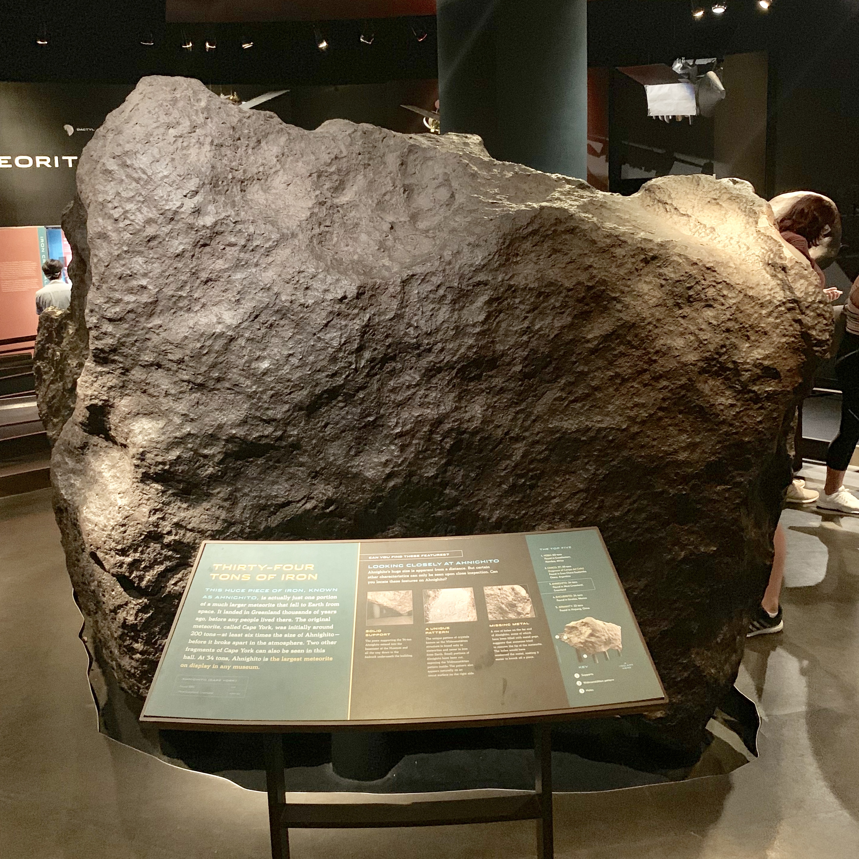 Ahnighito fragment of the Cape York meteorite. 34 tons, AMNH museum.